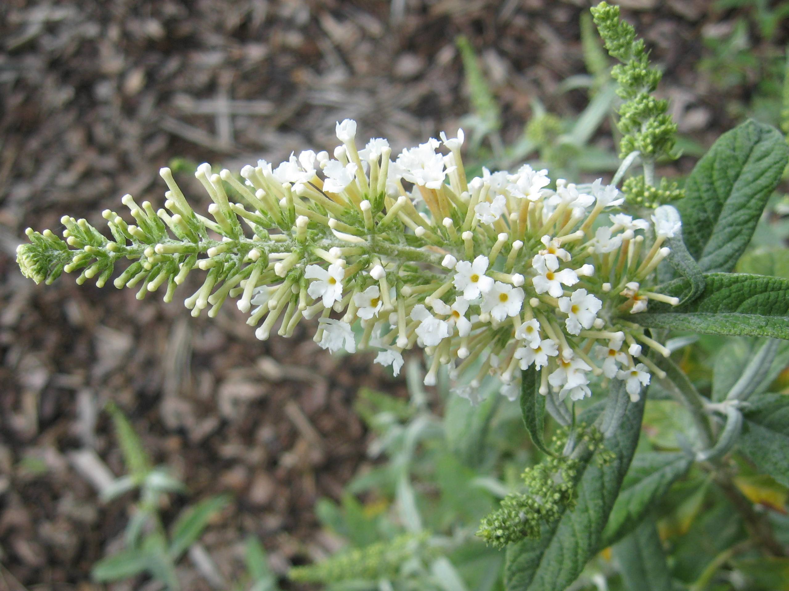 Photograph of Buddleja hybrid cultivar 'White Ball' panicle.